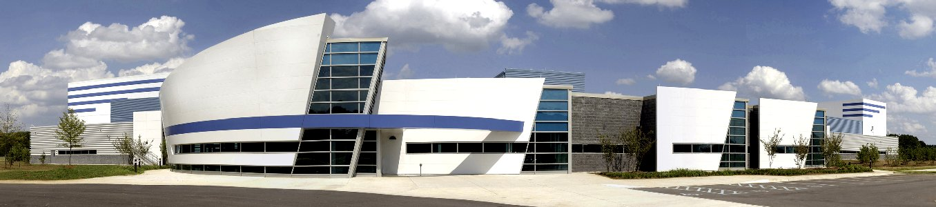 Latin: Transferred from de.wikipedia to Commons. The original description page was here. All following user names refer to de.wikipedia. Marshall Space Flight Center - Propulsion Research Laboratory (2004). 15:37, 25. Nov 2004 Benutzer:W.wolny (Bildbeschreibung).